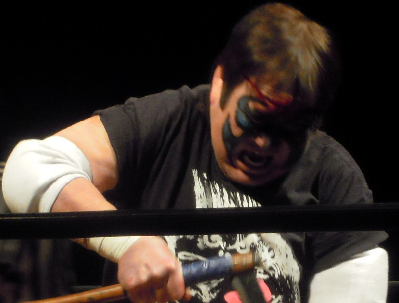 Japanese professional wrestler, Mr. Pogo. Dec 29 2011 Kishindo Returns 8 Shin-kiba 1st Ring.